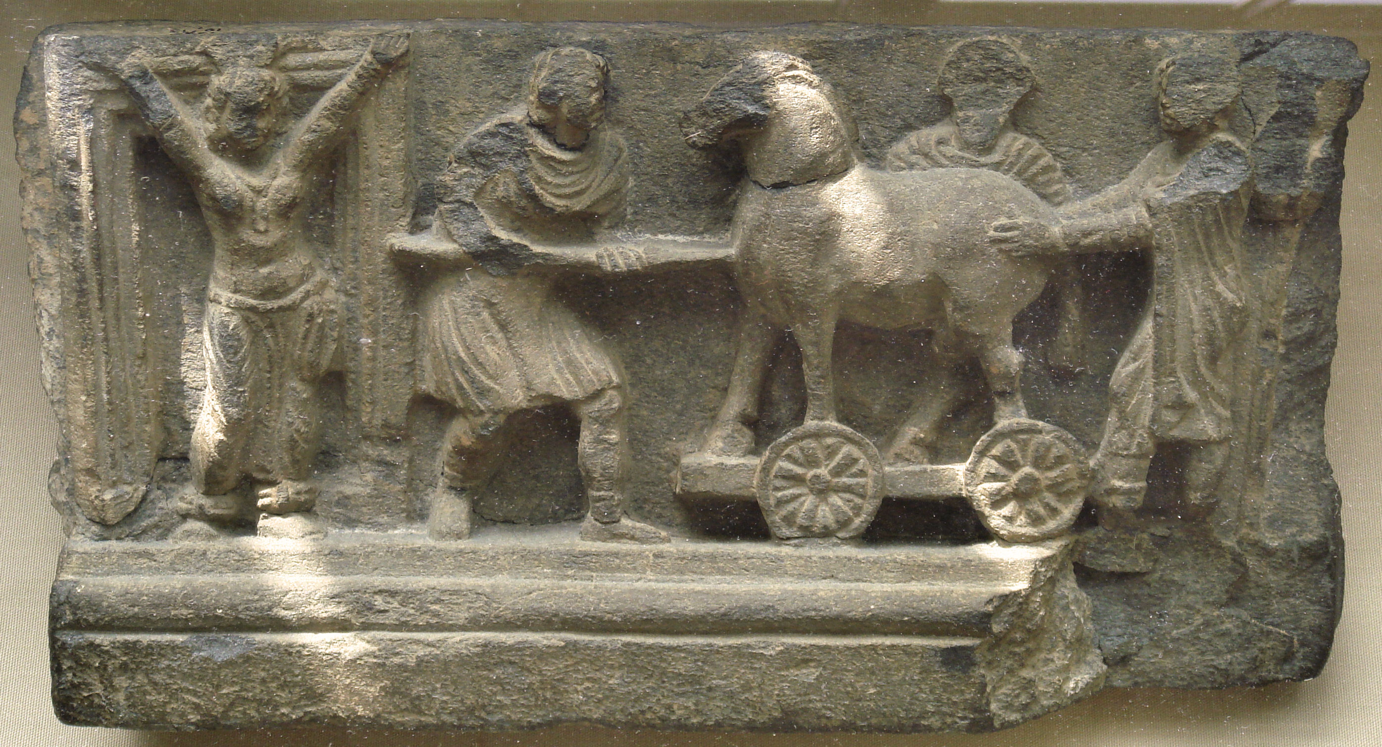 Depiction of the story of the Trojan horse in the art of Gandhara. British Museum. Personal photograph. Photographical reference here.[dead link] Another, less well preserved, frieze is known, in which warriors are seen exiting from the head of the horse.